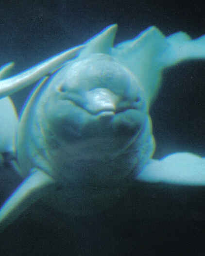 Apure (* ca. 1957; † 9. Oktober 2006 in Duisburg) was a male Boto (Inia geoffrensis), which lived in the Duisburger Zoo. Died as eldest known Amazon River Dolphin with more than 40 years (estimated)